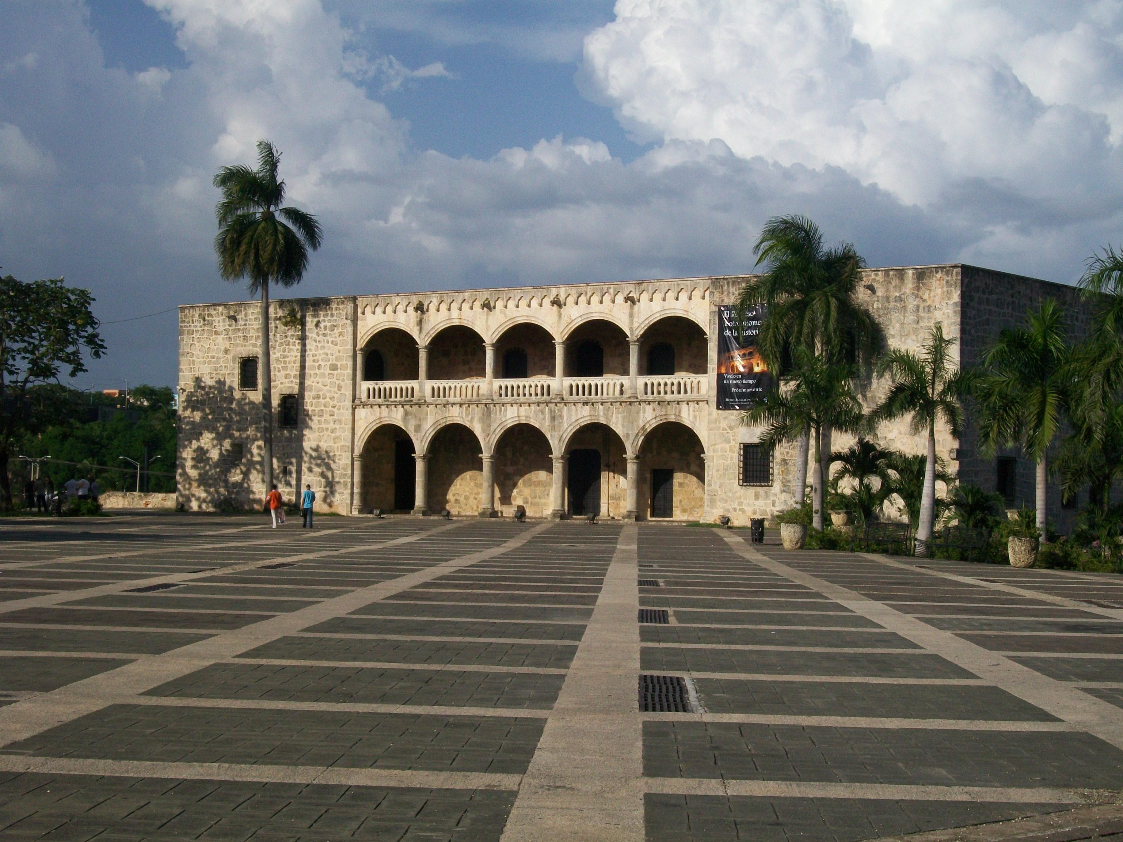 Alcazar De Colon